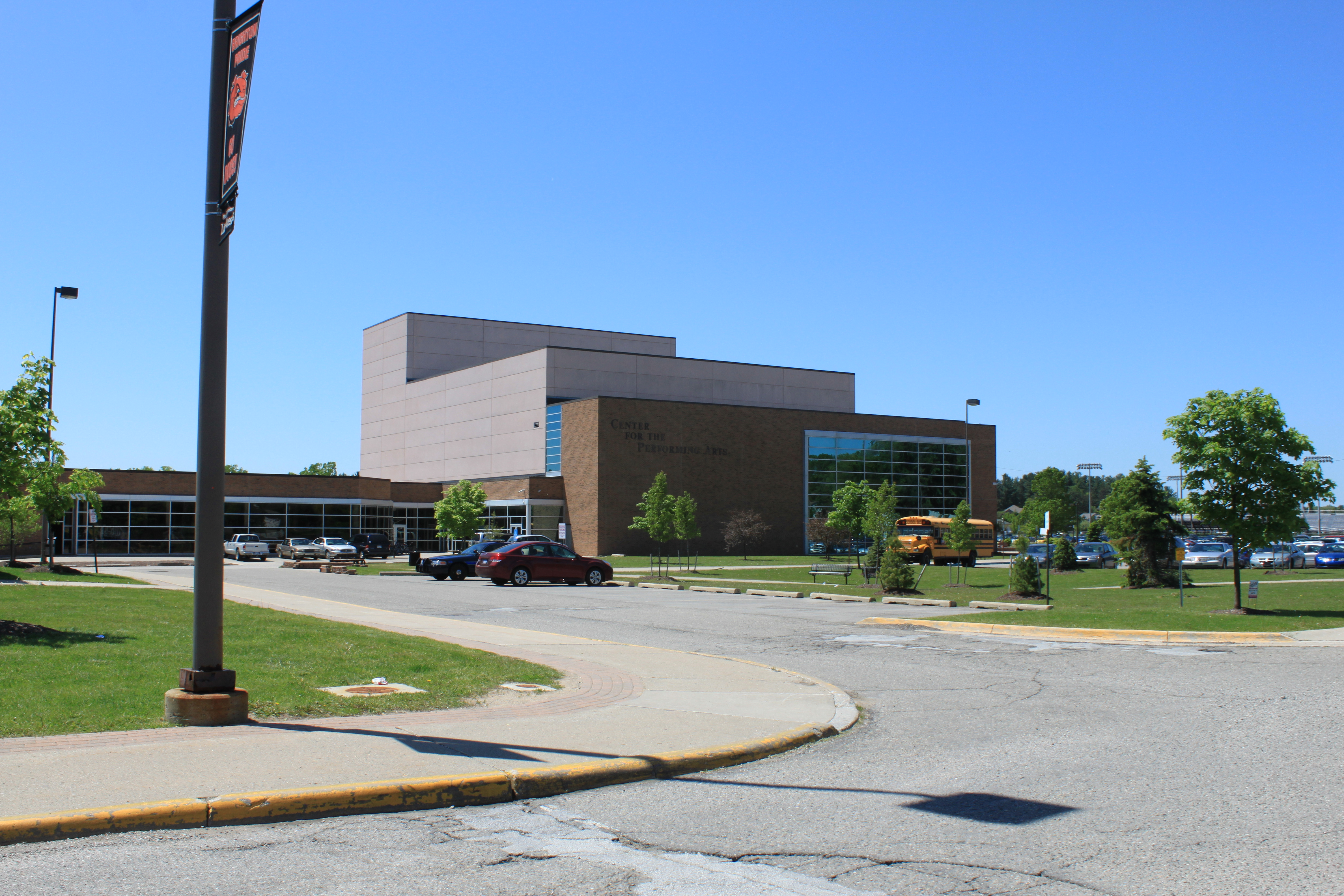 Brighton High School Center for the Performing Arts, Brighton Michigan